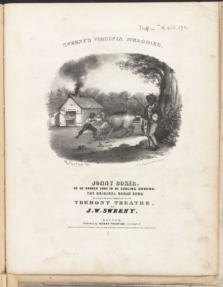 Accession No.: 07_07_000107 Call Number: no. 4 of **M.450.172 Lithographer: Thayer, Benjamin W. Title of Lithograph: Blacksmith's Shop on a Virginia Plantation Composer: Sweeney, J.W. Title of Composition: Jonny Boker or The Broken Yoke Place of Publication: Boston Publisher: Henry Prentiss Date: 1840 BPL Department: Music Flickr data on 2011-08-05: Camera: Sinar AG Sinarback 54 FW, Sinar m Tags: dc:identifier=07_07_000107 License: CC BY 2.0 User: Boston Public Library BPL